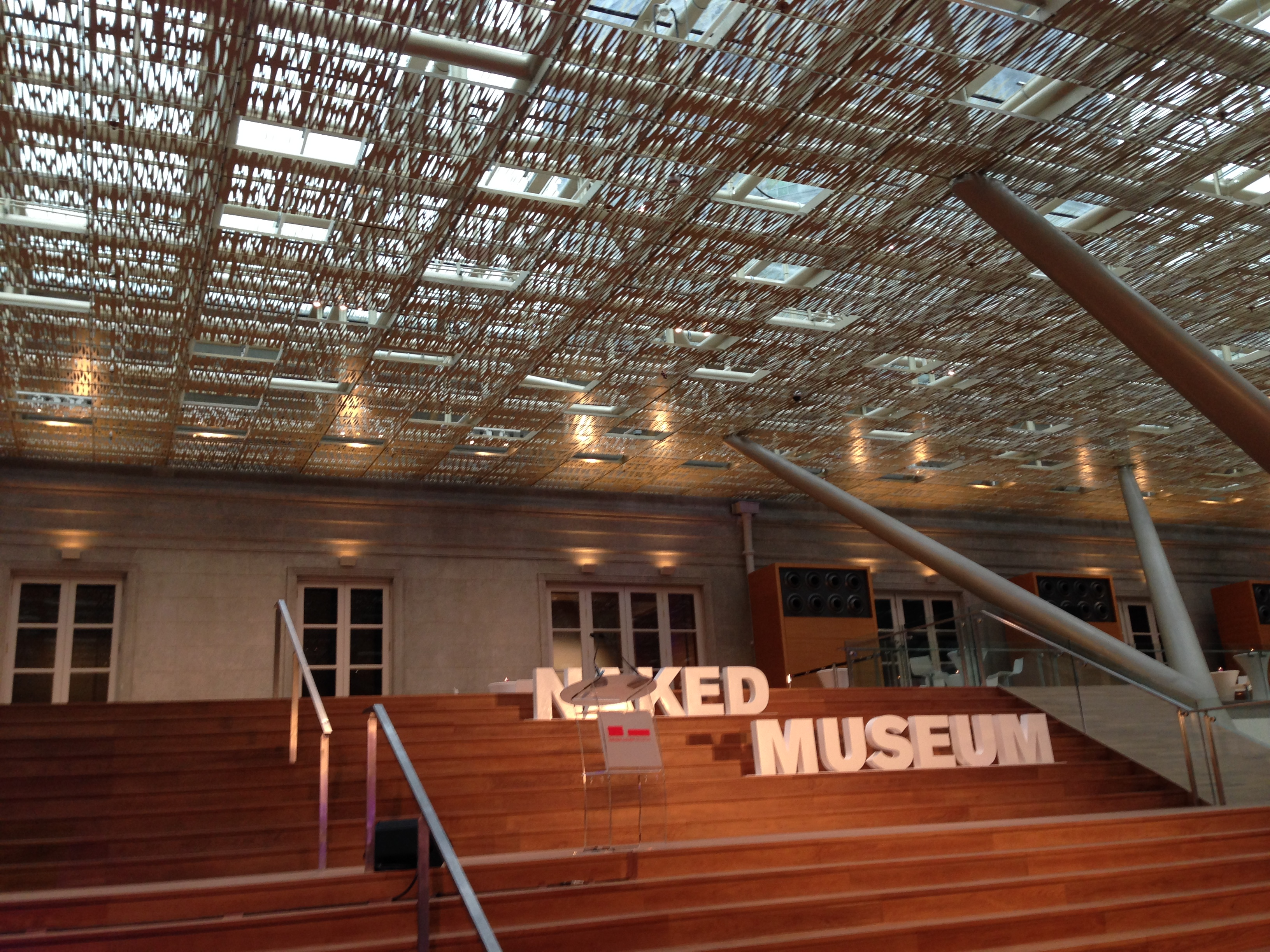 The Supreme Court Terrace in the Old Supreme Court Building side of the National Gallery Singapore. The "Naked Museum" sign referred to an event organized by the gallery enabling members of the public to visit the museum before the artworks were installed and the building officially opened.